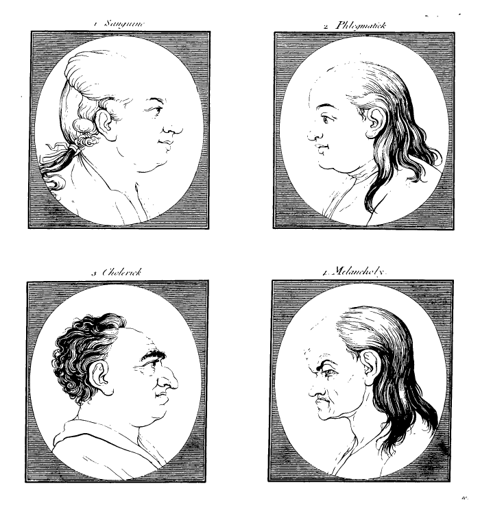 Illustration from Lavater's Essays on physiognomy, designed to promote the knowledge and the love of mankind